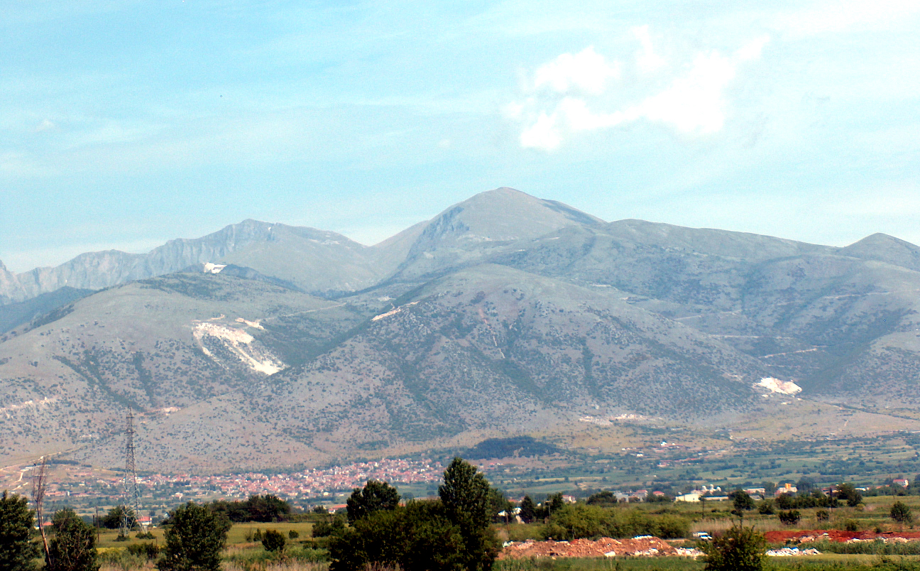 Falakro